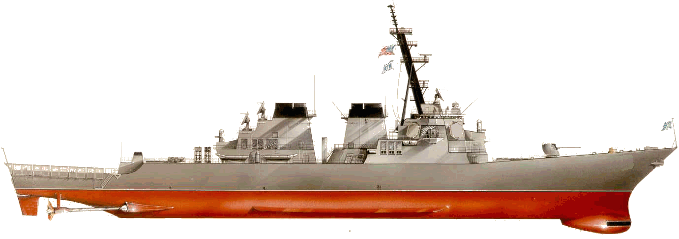 Arleigh Burke (DDG 51 - Flight I)